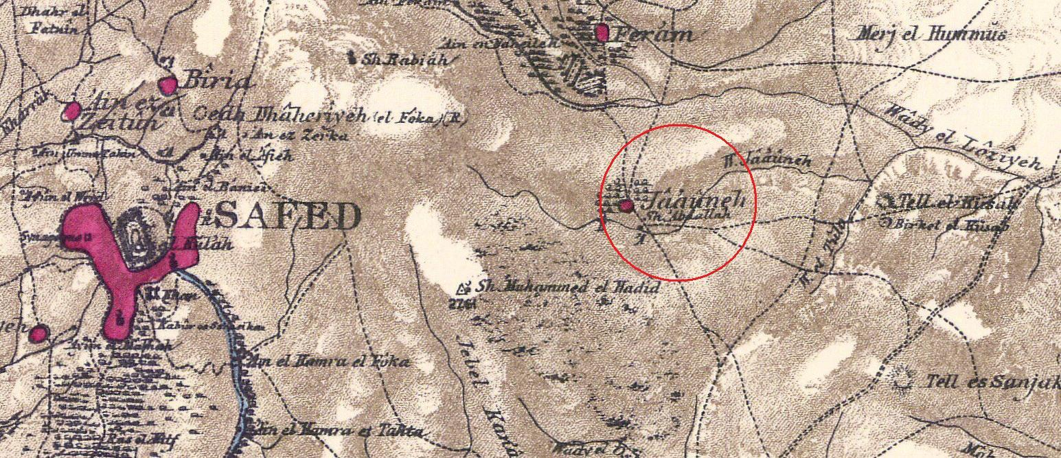 Jaauneh, al-Ja'una, Gei Oni, Rosh Pina - rework of a 1880 PEF map